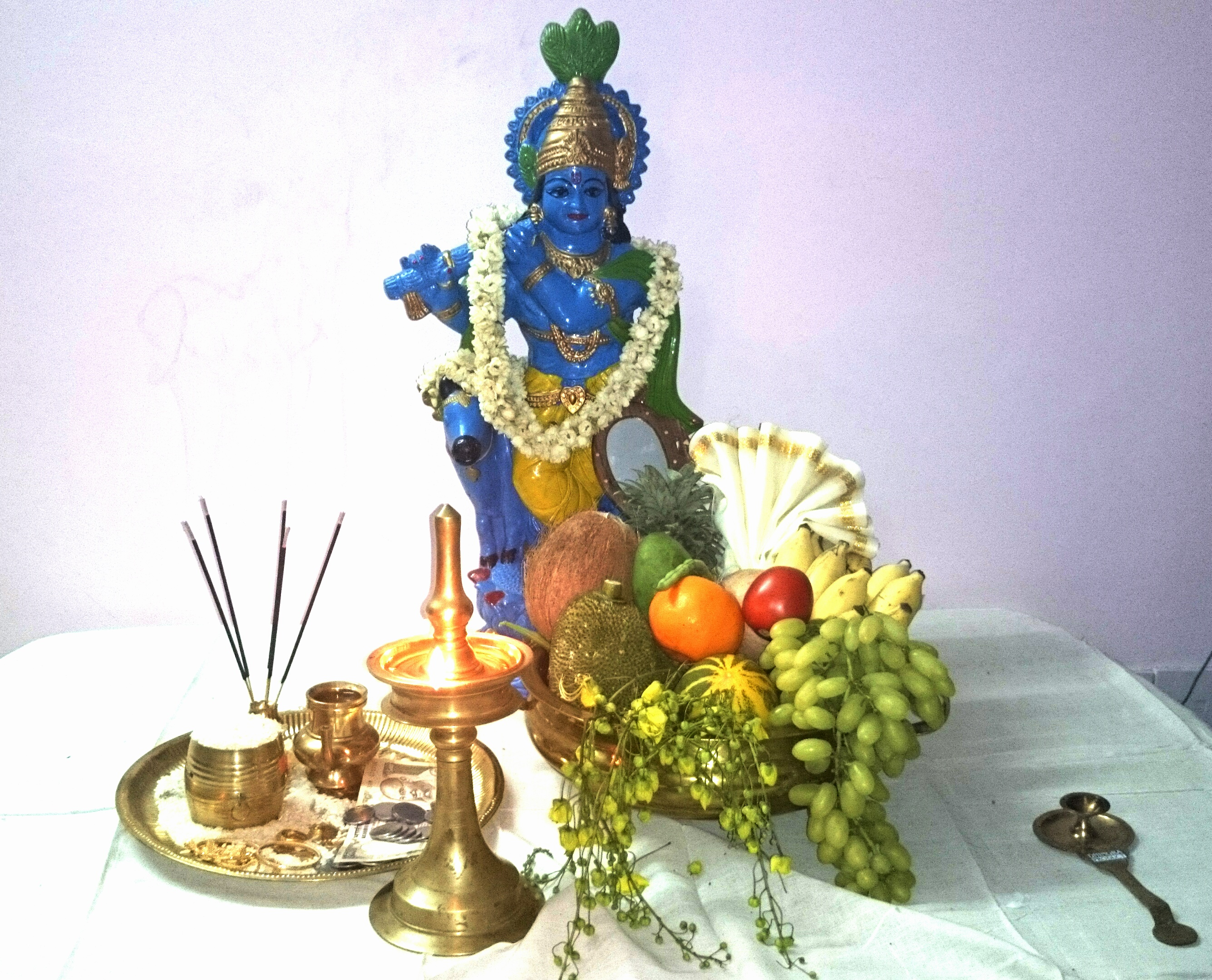 Krishna, Visnu kani set, Bisu puja offerings rice, fruits and vegetables, betel leaves, areca nut, metal mirror, yellow flowers called konna